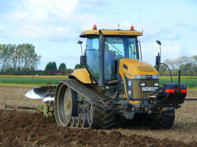 A Caterpillar Challenger MT765B tracked tractor at work ploughing a field near to Leverton Lucasgate, Lincolnshire, Great Britain